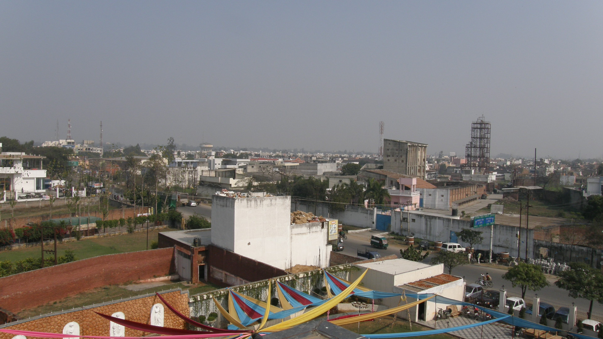 Skyline of Moradabad